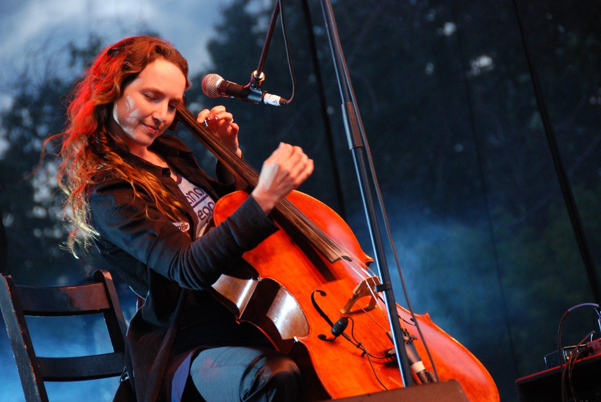 Jorane, headlining the Edmonton Chante Festival at École Maurice-Lavallée on June 22, 2007.